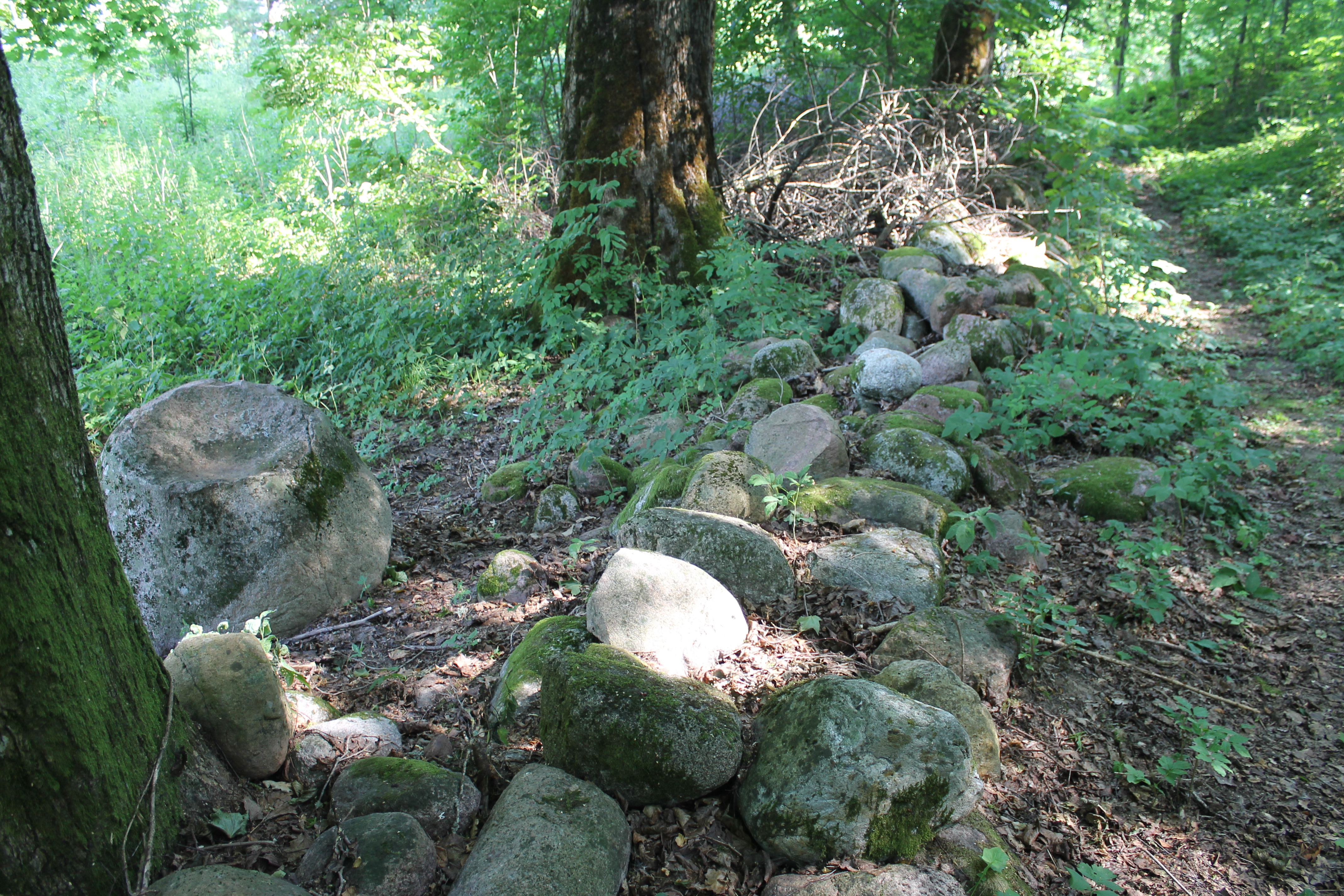 Alkas, Kretinga district, LithuaniaLietuvių: Alko senkelio akmenų pylimas, Kretingos rajonas, Lietuva